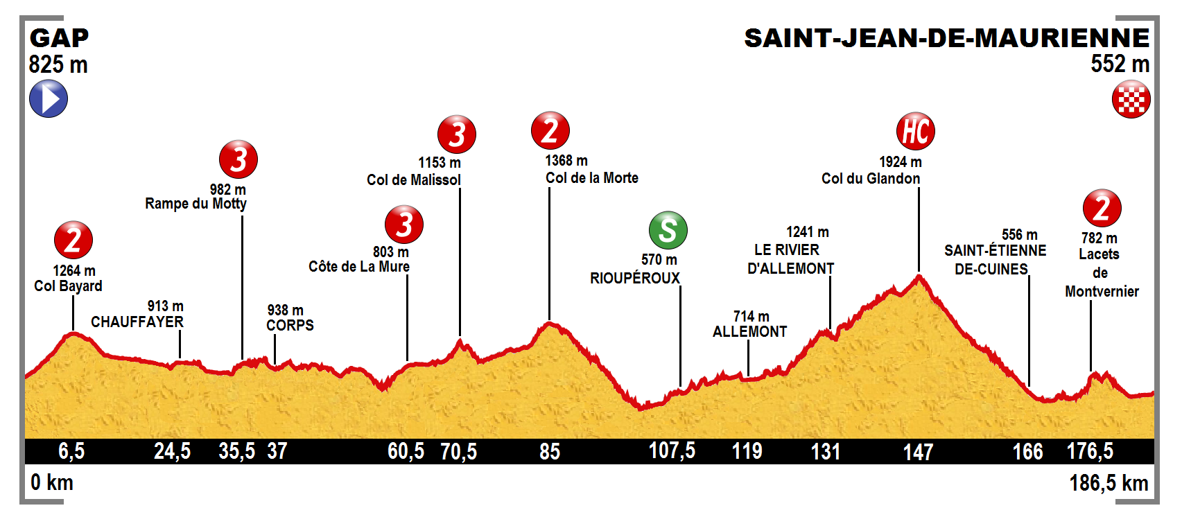 Profile of the 18th stage of the Tour de France 2015